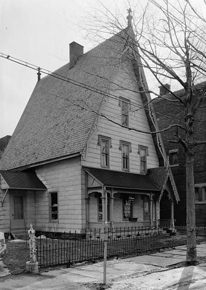 Alfred Dunk House, 4 Pine Street, Binghamton (Broome County, New York) cropped This file comes from the Historic American Buildings Survey (HABS), Historic American Engineering Record (HAER) or Historic American Landscapes Survey (HALS). These are programs of the National Park Service established for the purpose of documenting historic places. Records consist of measured drawings, archival photographs, and written reports. When reusing please credit: Library of Congress, Prints & Photographs Division, NY,4-BING,9-1 This tag does not indicate the copyright status of the attached work. A normal copyright tag is still required. See Commons:Licensing. This work is in the public domain in the United States because it is a work prepared by an officer or employee of the United States Government as part of that person’s official duties under the terms of Title 17, Chapter 1, Section 105 of the US Code. Note: This only applies to original works of the Federal Government and not to the work of any individual U.S. state, territory, commonwealth, county, municipality, or any other subdivision. This template also does not apply to postage stamp designs published by the United States Postal Service since 1978. (See § 313.6(C)(1) of Compendium of U.S. Copyright Office Practices). It also does not apply to certain US coins; see The US Mint Terms of Use. This file has been identified as being free of known restrictions under copyright law, including all related and neighboring rights. Object location42° 06′ 01″ N, 75° 53′ 45″ W